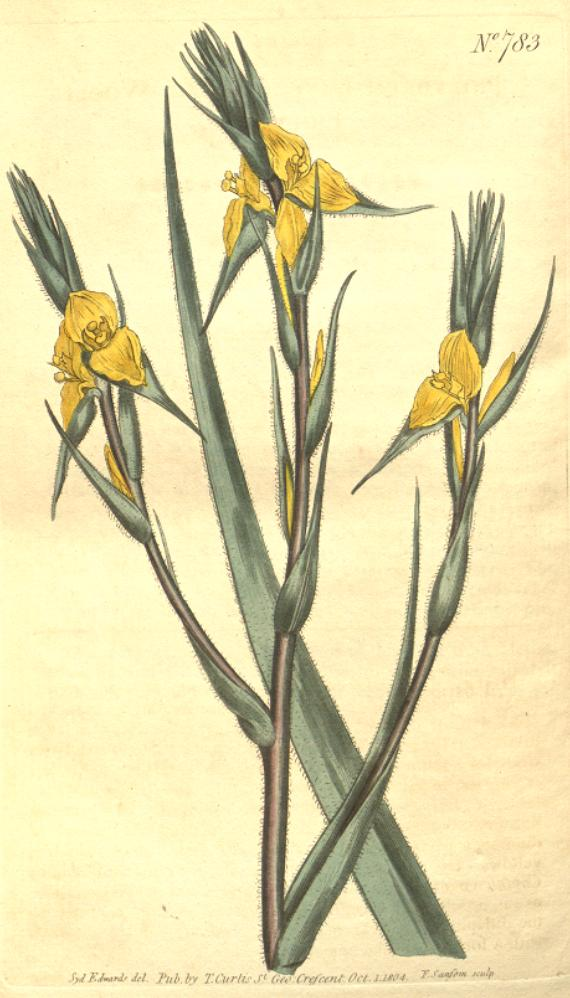 Illustration of Philydrum lanuginosum